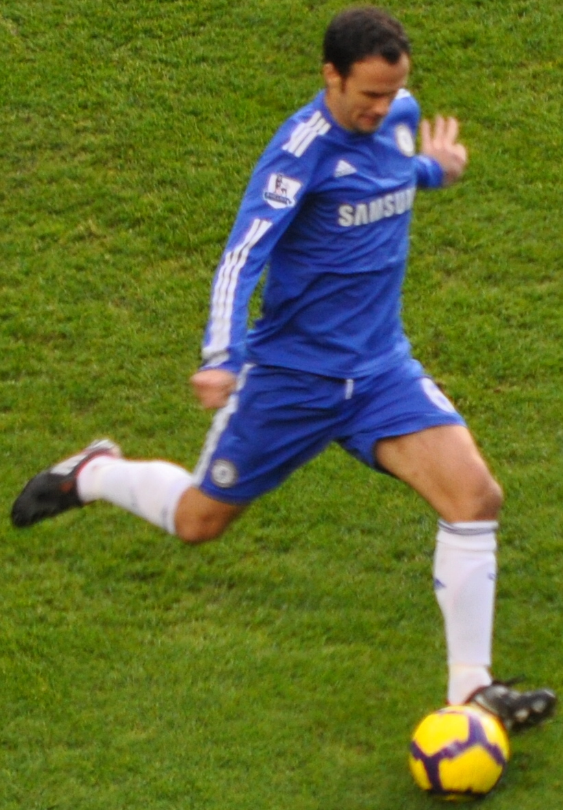 Ricardo Carvalho in action against Fulham at Stamford Bridge